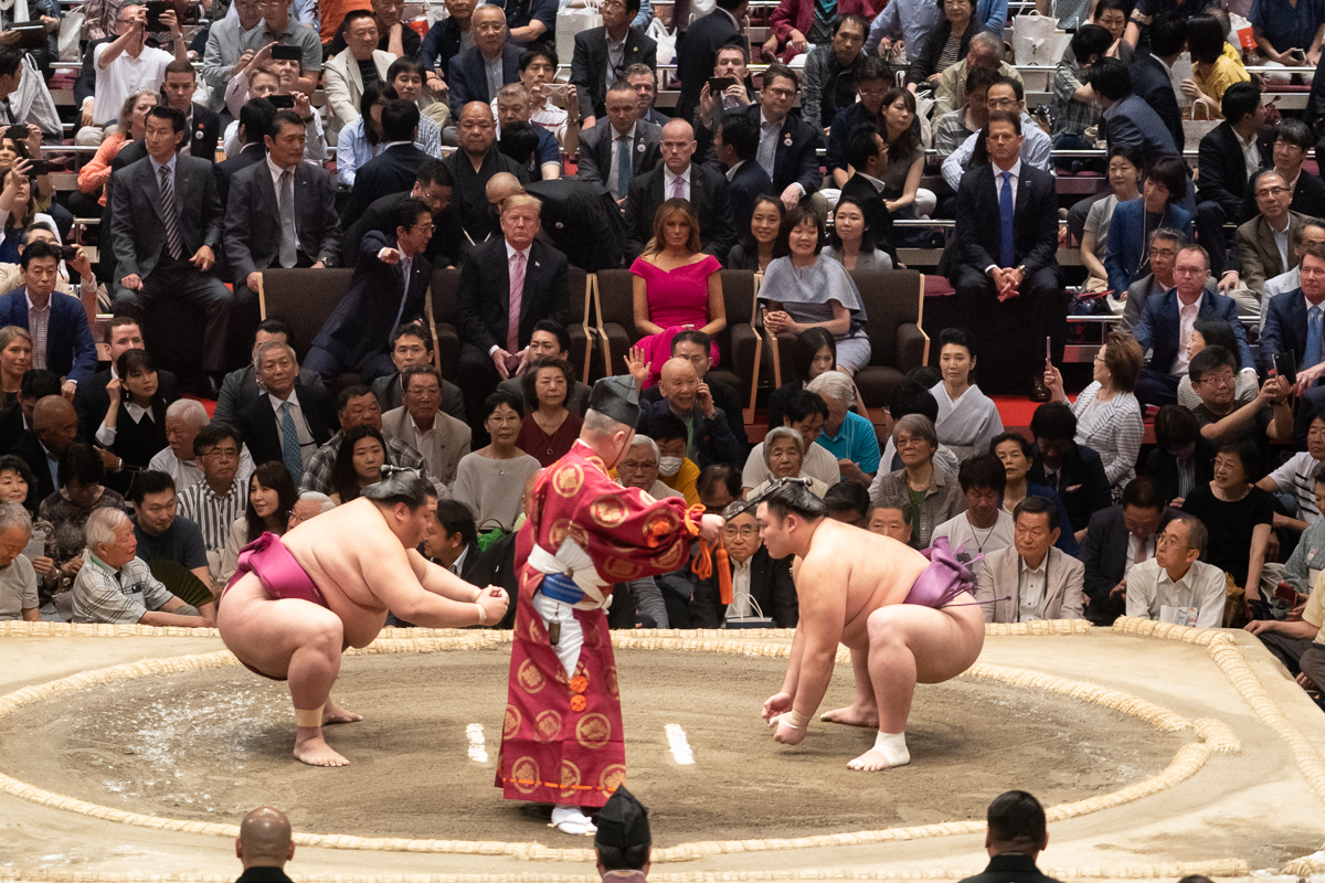 President Donald J. Trump and First Lady Melania Trump, joined by the Prime Minister of Japan Shinzo Abe and his wife, Mrs. Akie Abe, watch a sumo tournament Sunday, May 26, 2019, at the Ryōgoku Kokugikan Stadium in Tokyo. (Official White House Photo by Andrea Hanks)